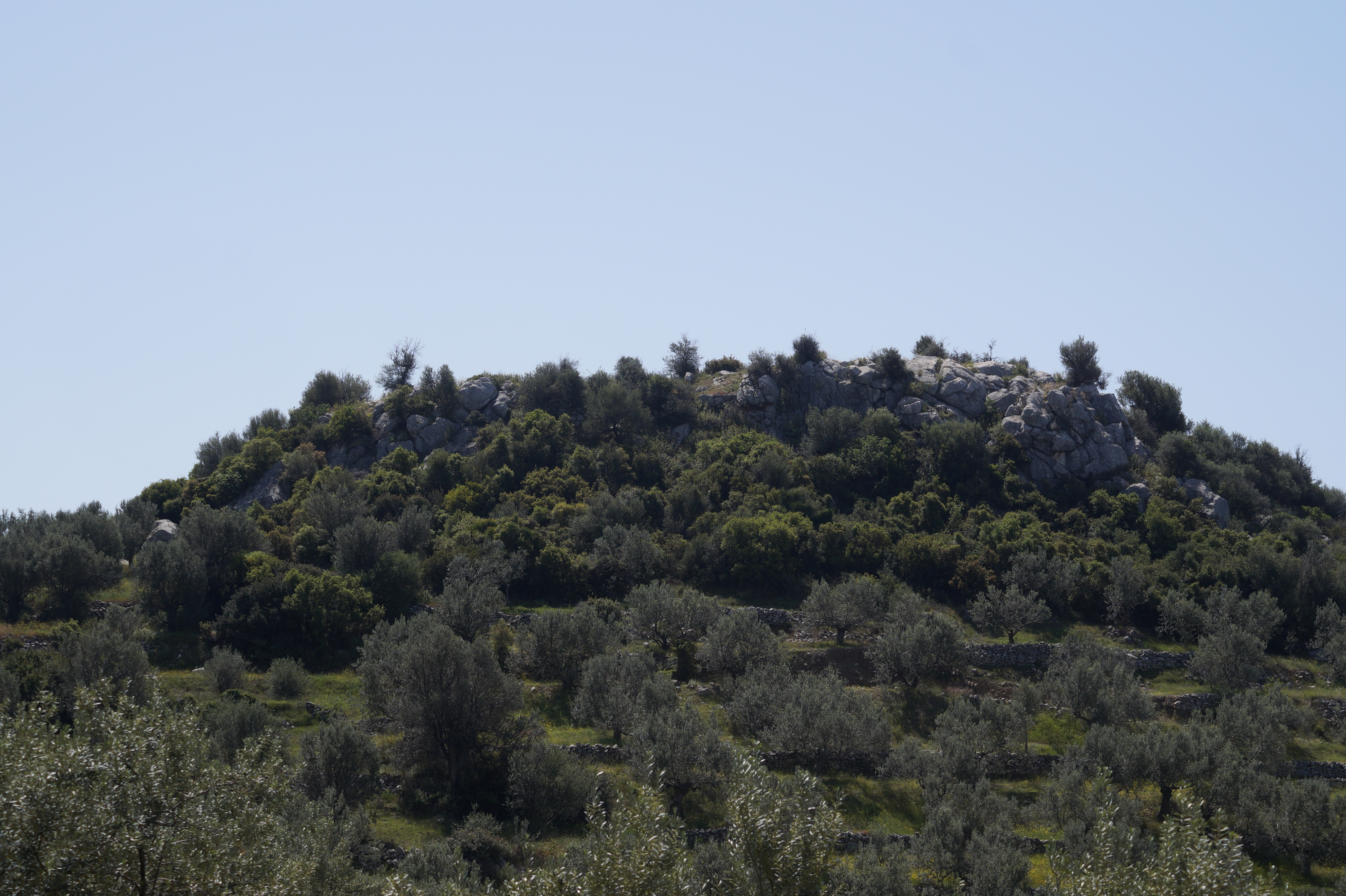 Arkadiko, Argolis, Greece: View from the north on the Kastraki hill.